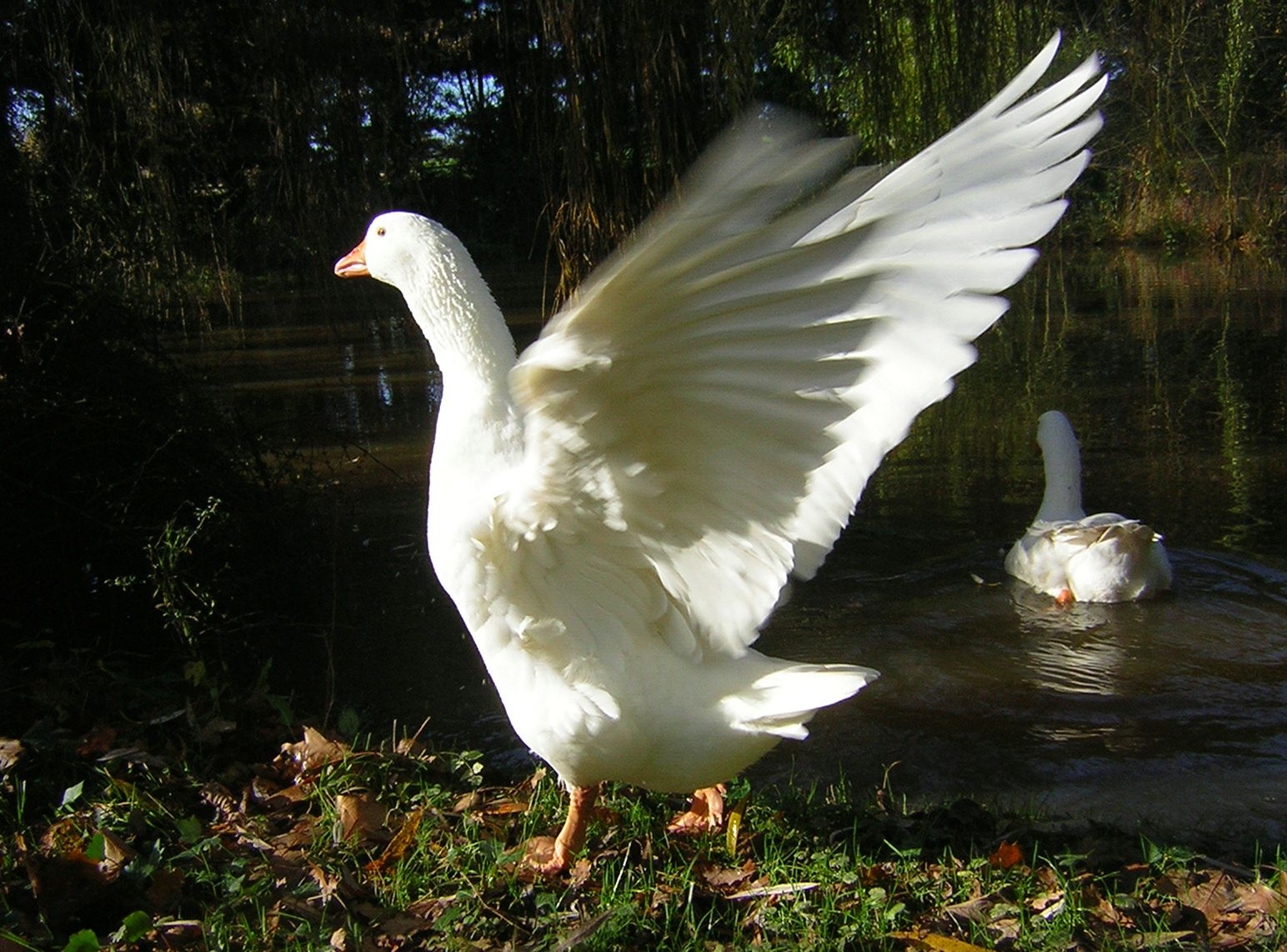 Domesticated geese